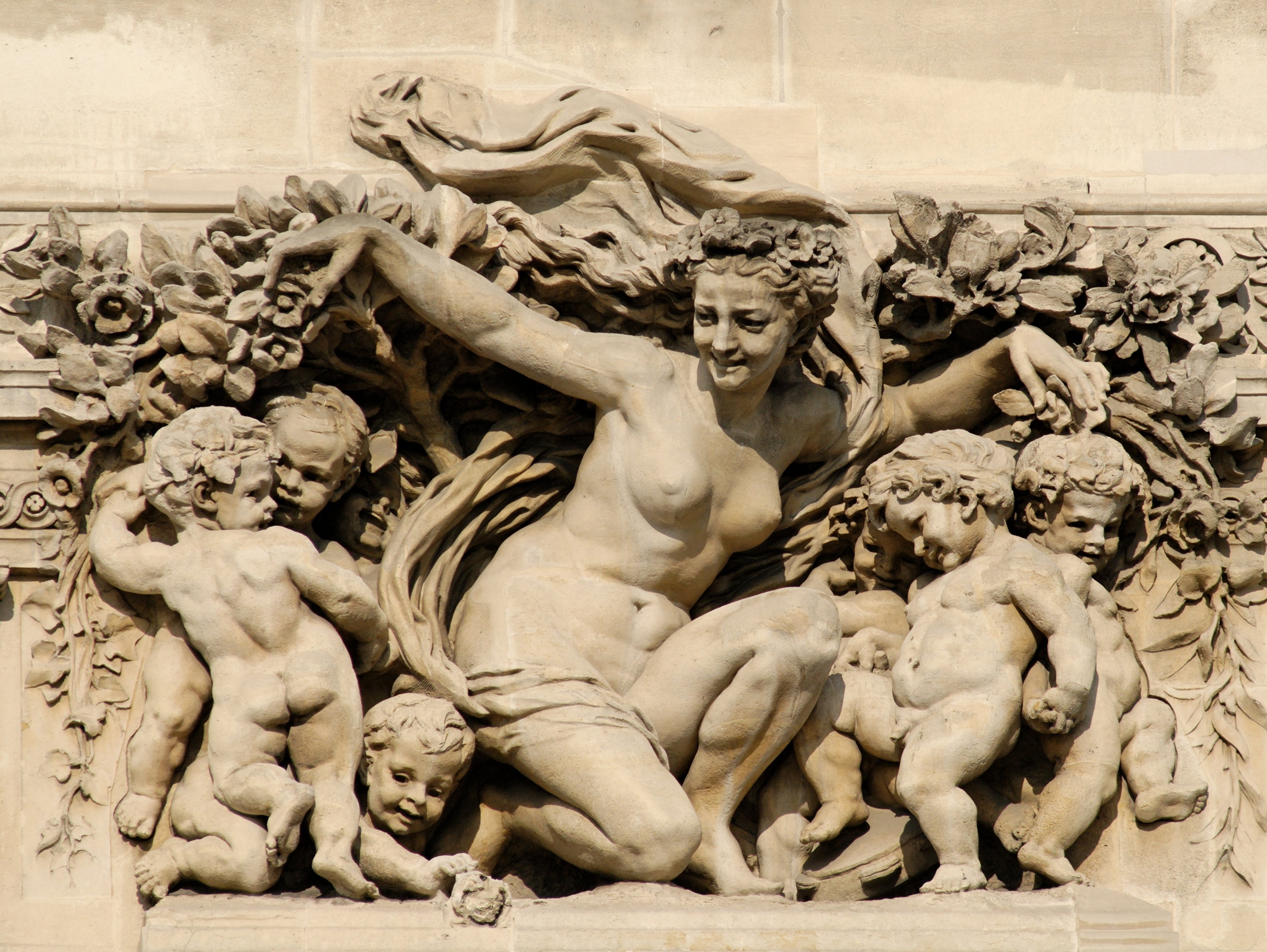 The Triumph of Flora by Jean-Baptiste Carpeaux (1866). South façade of the Pavillon de Flore, Louvre palace, Paris.